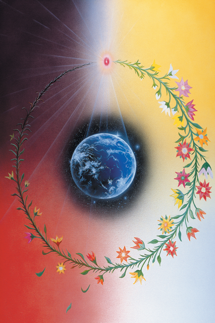 A symbolic representation of the Brahma Kumaris concept of cyclic time